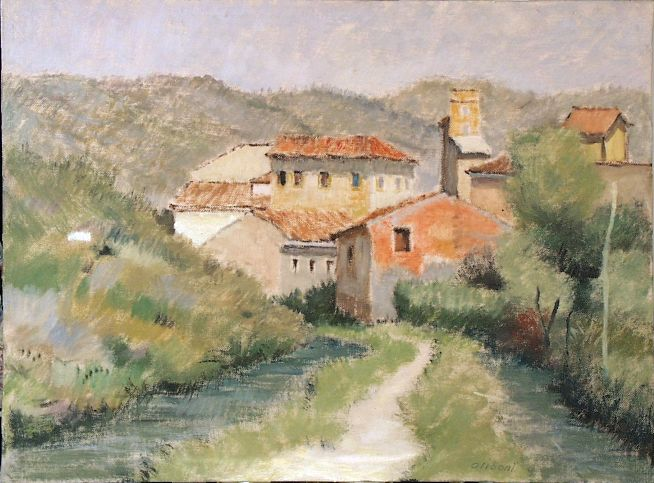 Painting by Silvio Oliboni : I Mulini / 0060ae